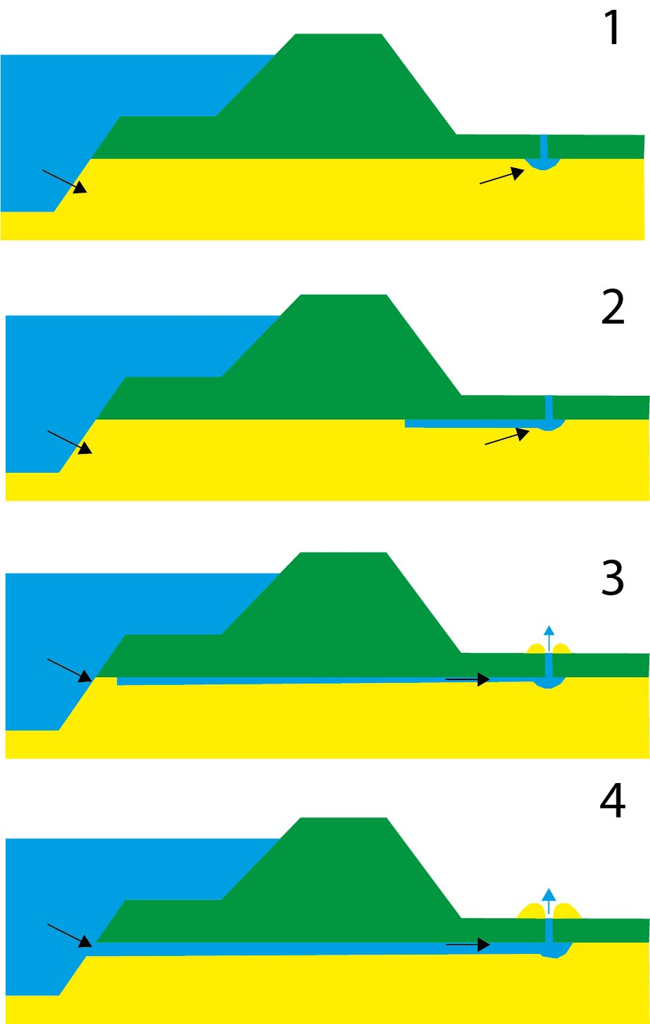 1. Water flows trough the sand layer under the dike and well up behind the dike. A well is formed. 2: The water flowing under the dike transports sand. This sand is deposited on land behind the dike and forms a sand boil. A pipe is formed, the length of the pipe depends on the waterlevel difference between river level and waterlevel inland 3: At a certain length of the pipe the erosion increases progressively because of decrease of hydraulic resistance, this is due to the fact that the length of the pipe increases. 4: When a connection is formed with the river, the flow increases and transports more sand. Caveties may be formed under the dike, causing subsidence of the crest and leading eventually to dike breaching.